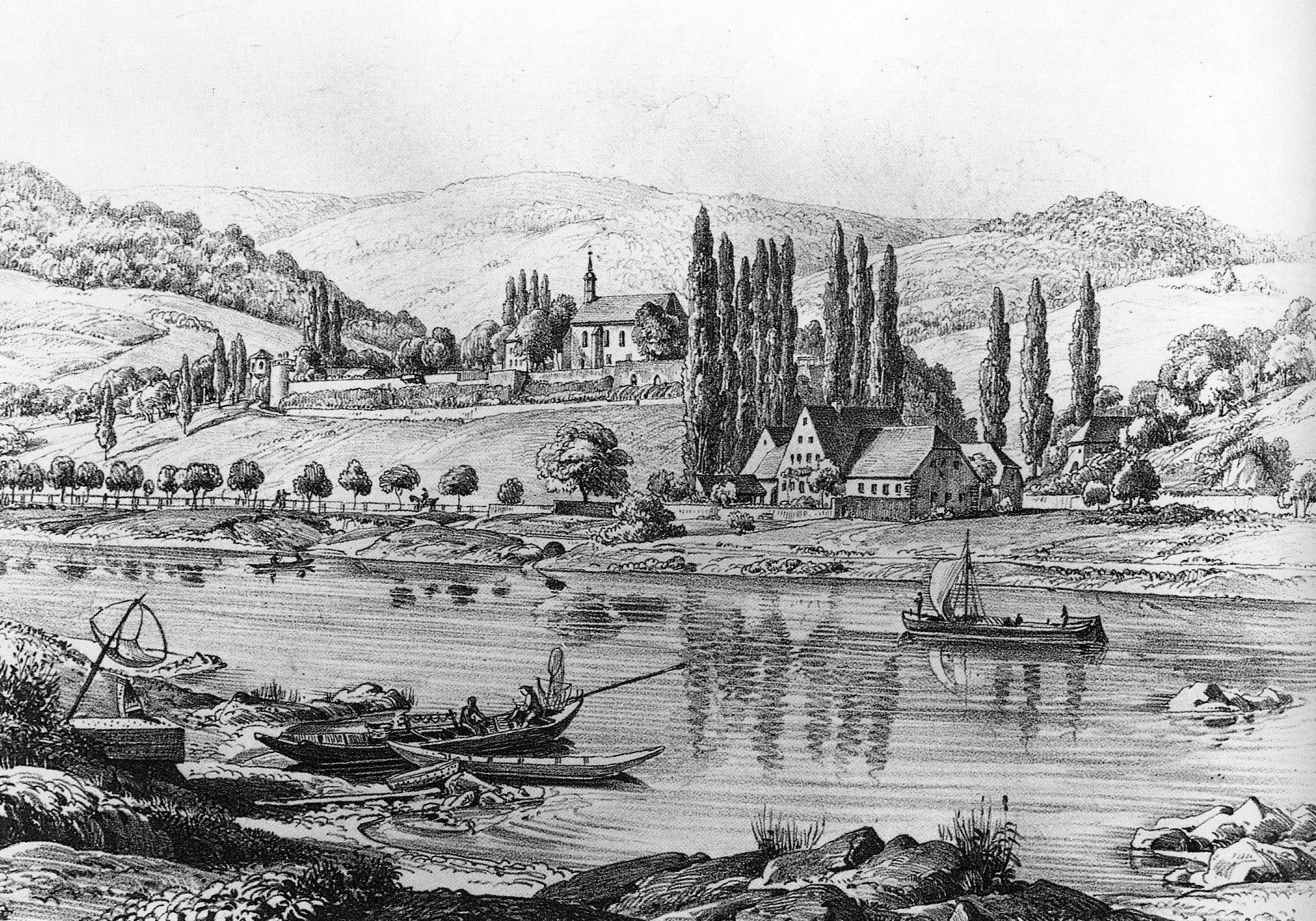 historic view of Neuburg at Heidelberg, Germany